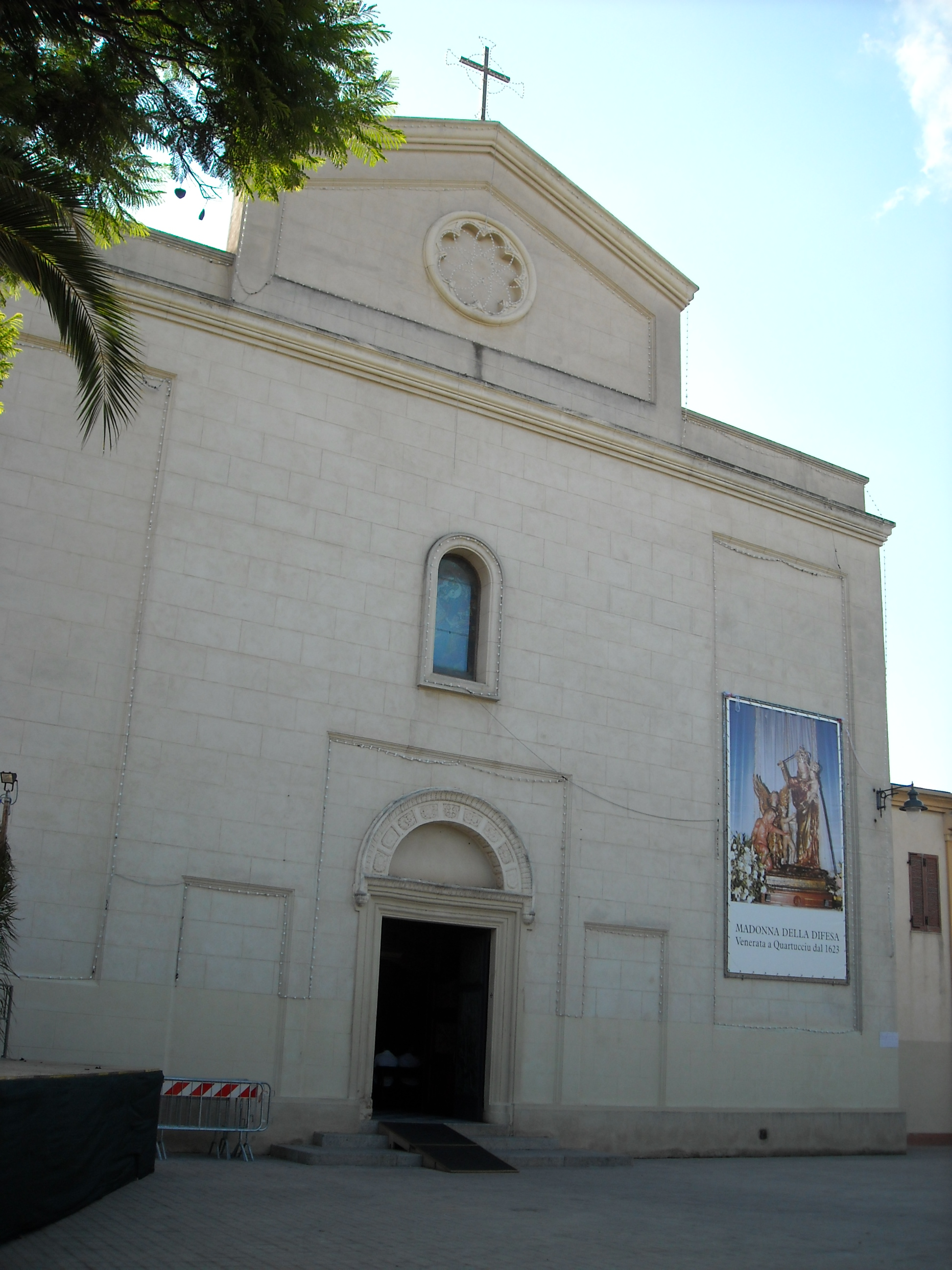 Church of San Giorgio Martire in Quartucciu , Sardinia -.Italy